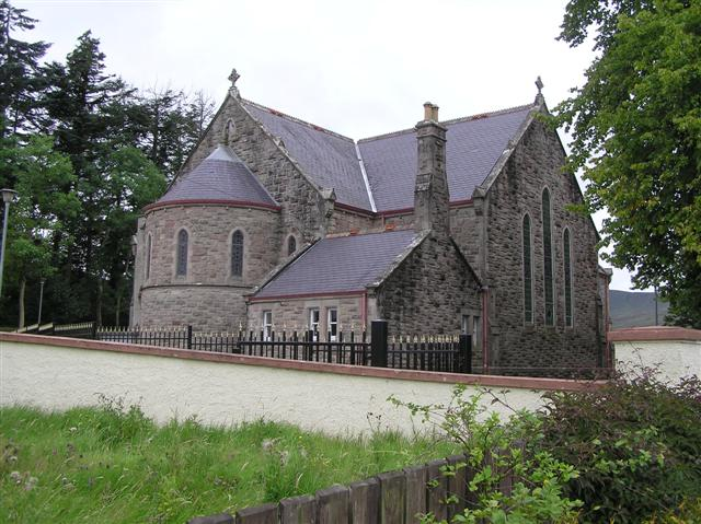 Moneyneany RC Church It is located in the centre of the hamlet